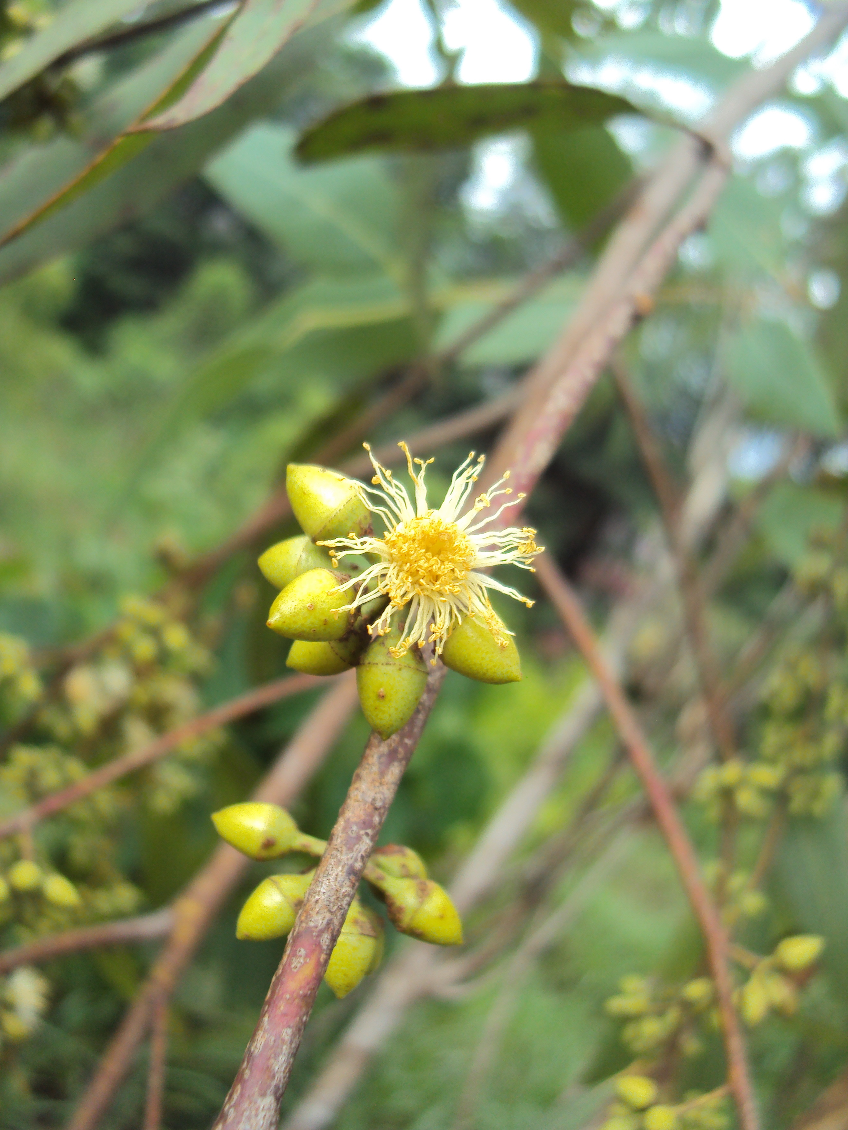 Eucalyptus camaldulensis